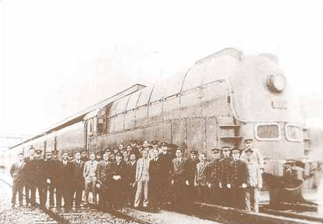 Trial run of South Manchuria Railway Pashina-Class Locomotive No. 973